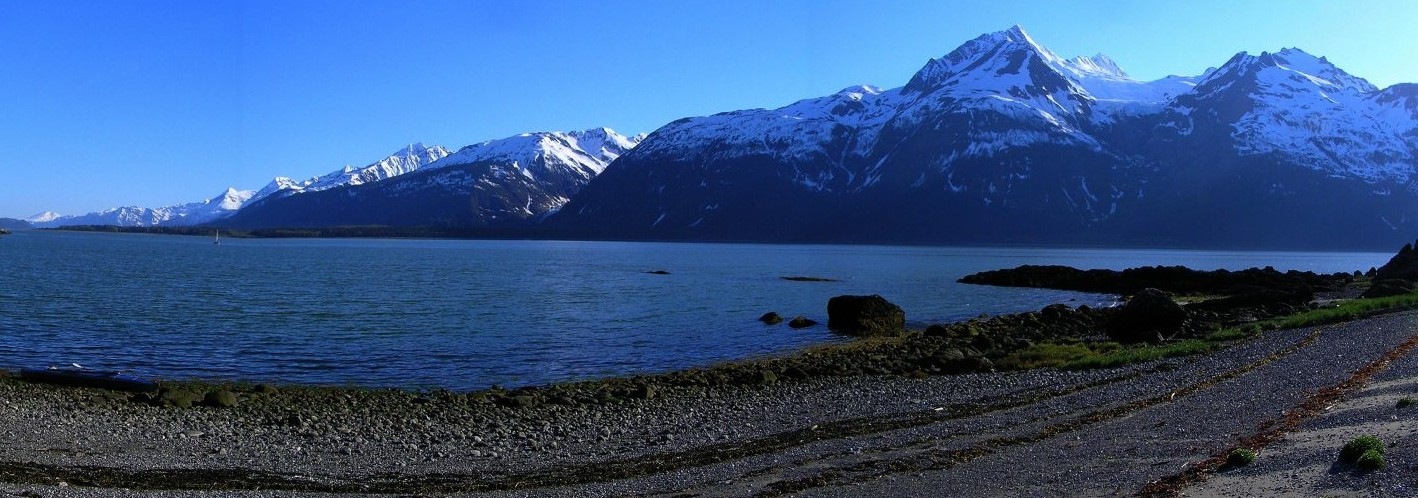 Chilkat Mountains from Kochu Island, south of Haines, Alaska